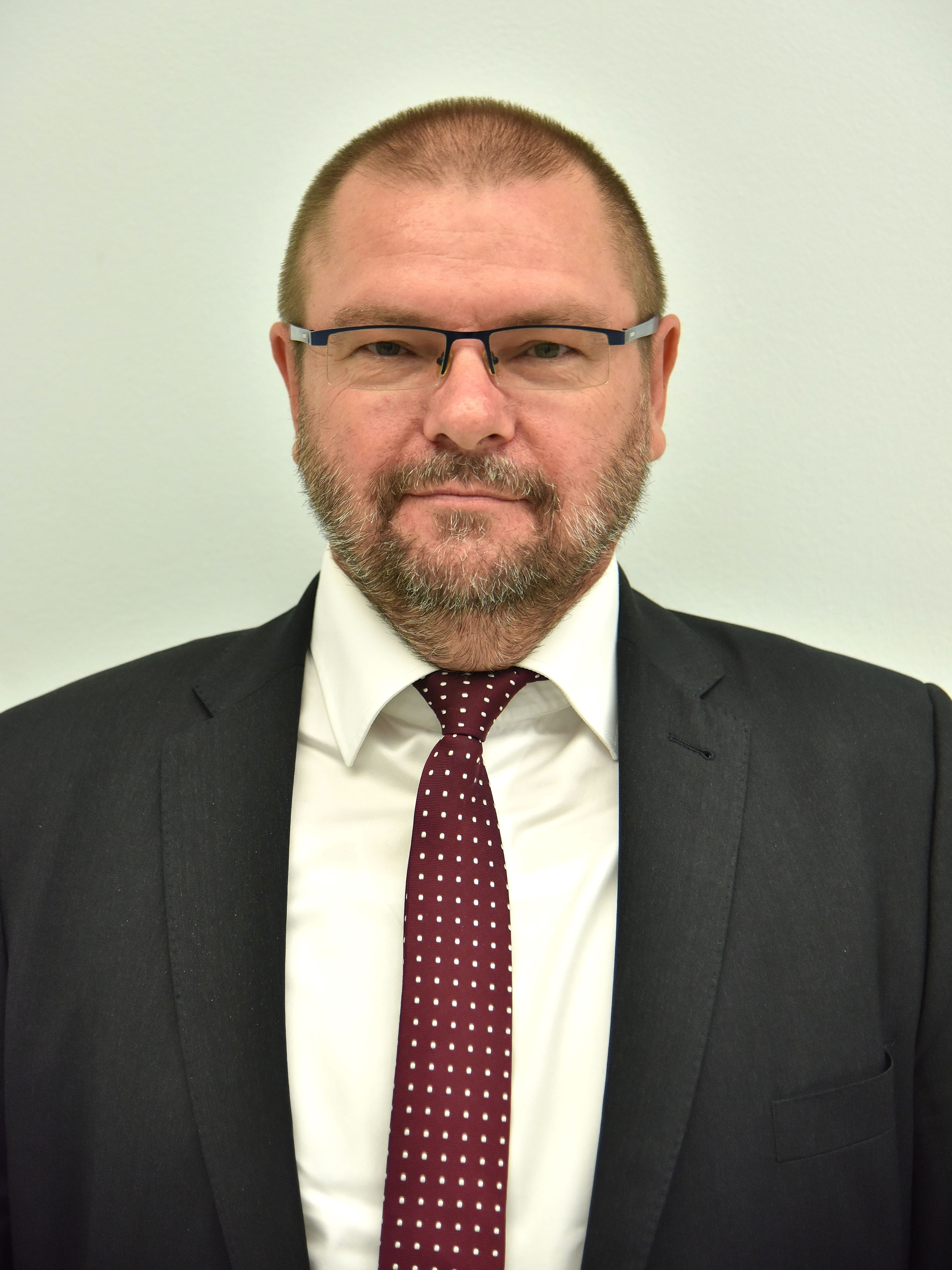 MEP Robert Iwaszkiewicz in the Sejm